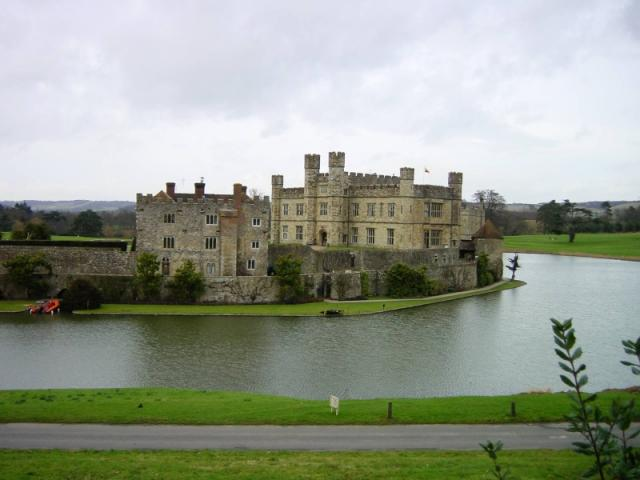 Leeds Castle, Kent. Looking north towards the Downs.